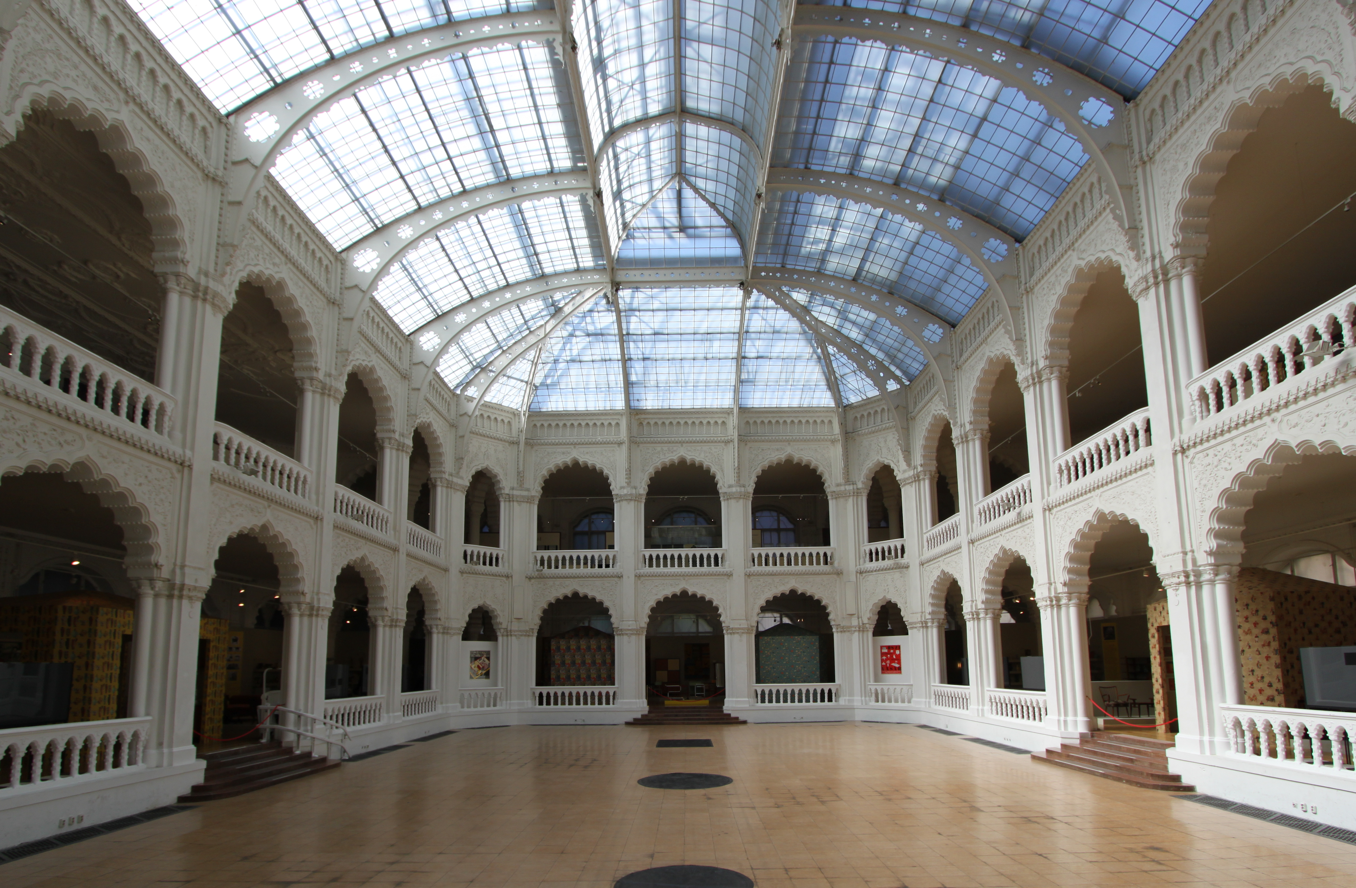 Budapest Museum of Applied Arts; Atrium; view from the entrance